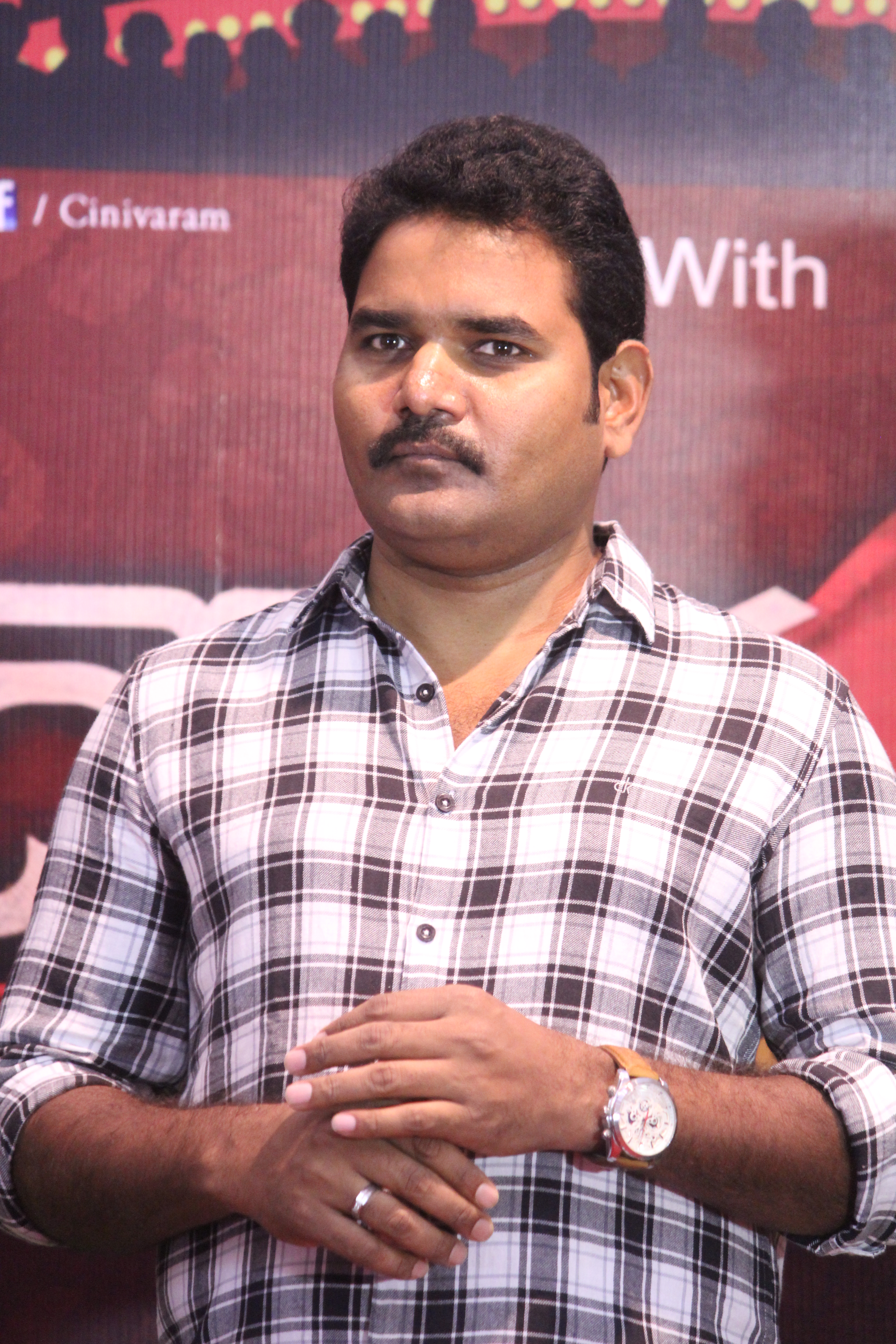 KVR Mahendra, Telugu Film Director